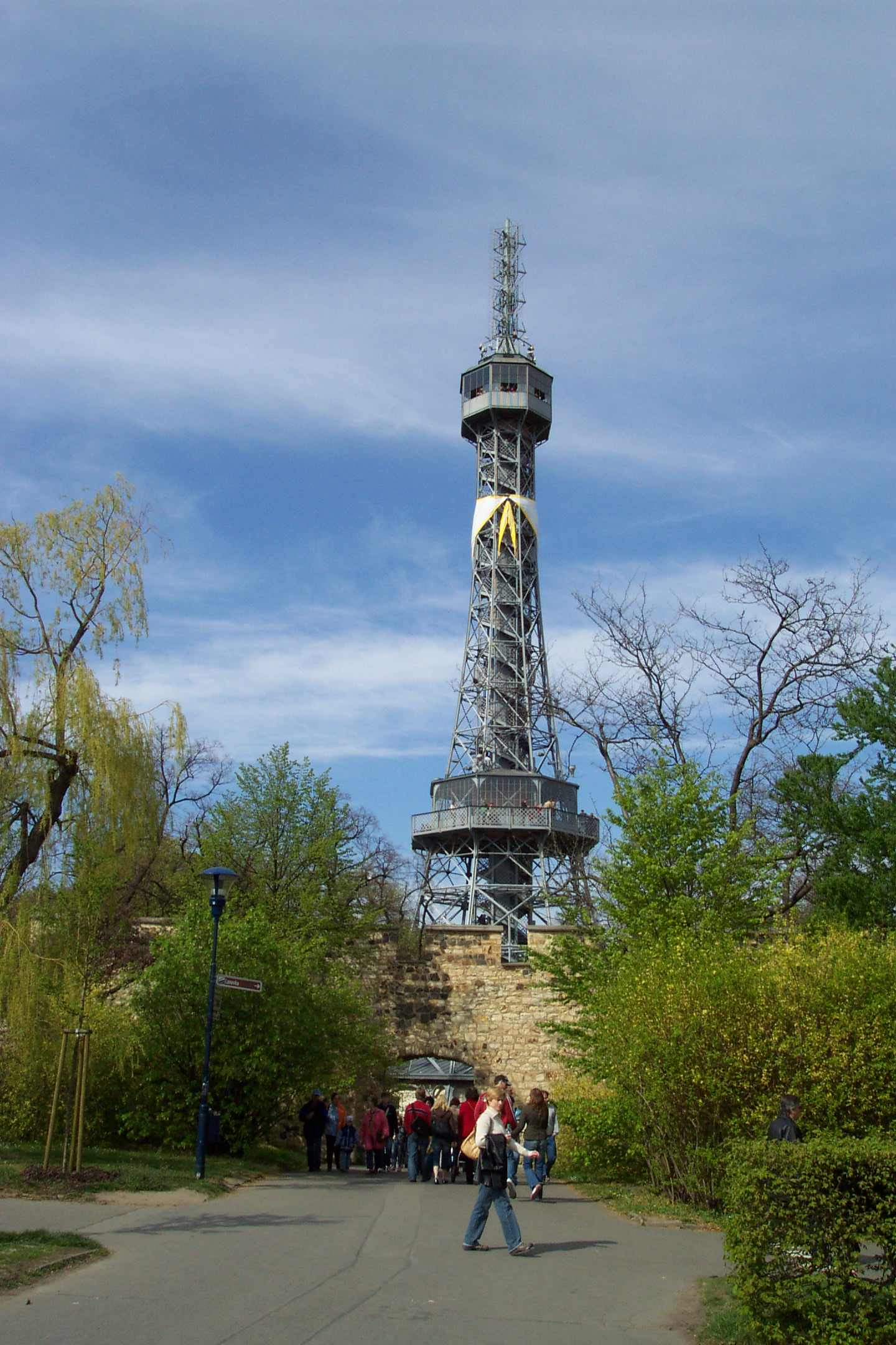 Prague, the Petřín watch tower during the centennial of scout movement foundation